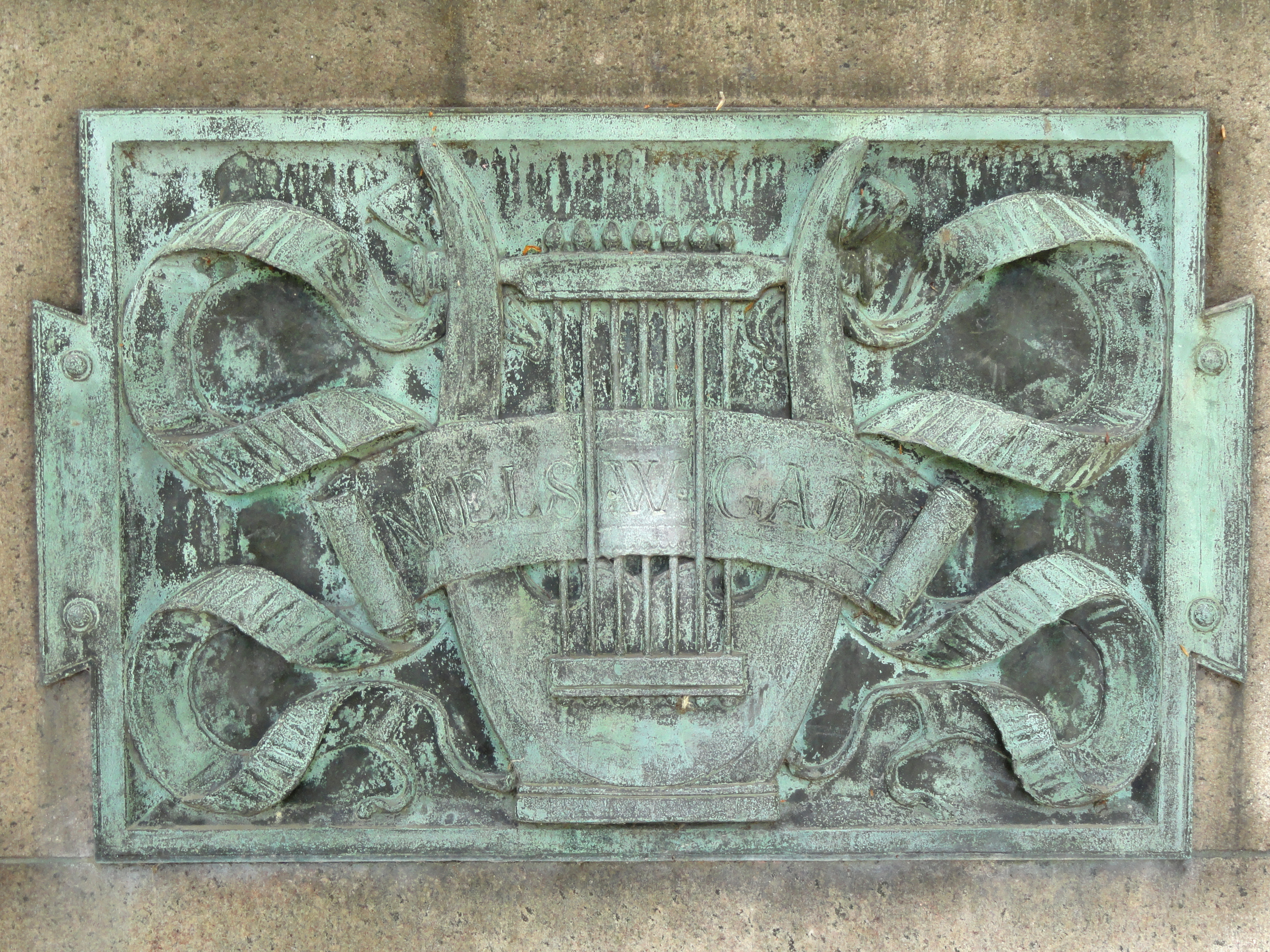 Niels Wilhelm Gade by Peder Severin Krøyer (1851-1909), Copenhagen, Denmark. This sculpture is in the public domain because the sculptor died more than 70 years ago.